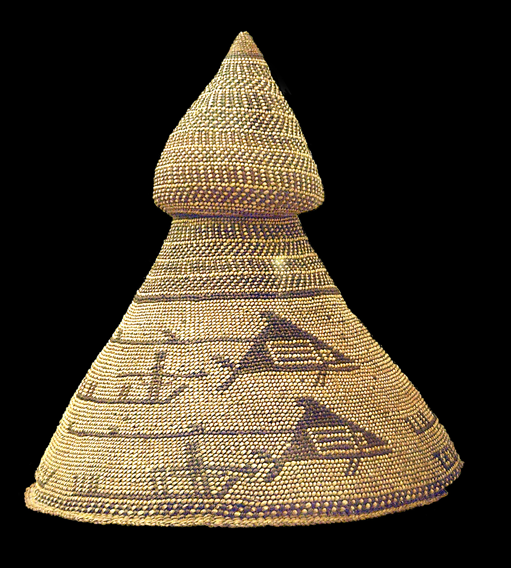 A hat of a chief whaler.